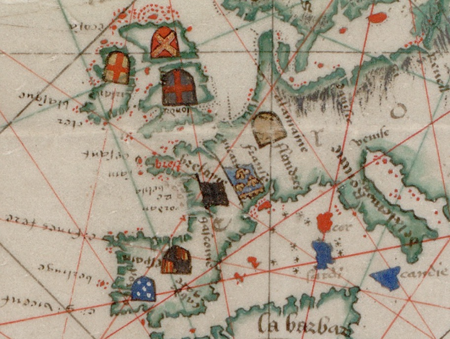 World chart, which includes America and a large "Terra Java" (Australia?). HM 46. PORTOLAN ATLAS and NAUTICAL ALMANAC. France, 1543. Call Number: HM 46 Folio: Binding Description: World chart, which includes America and a large "Terra Java" (Australia?).